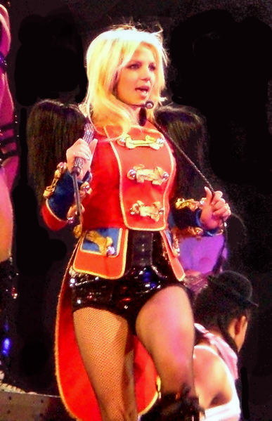 Britney Spears Concert